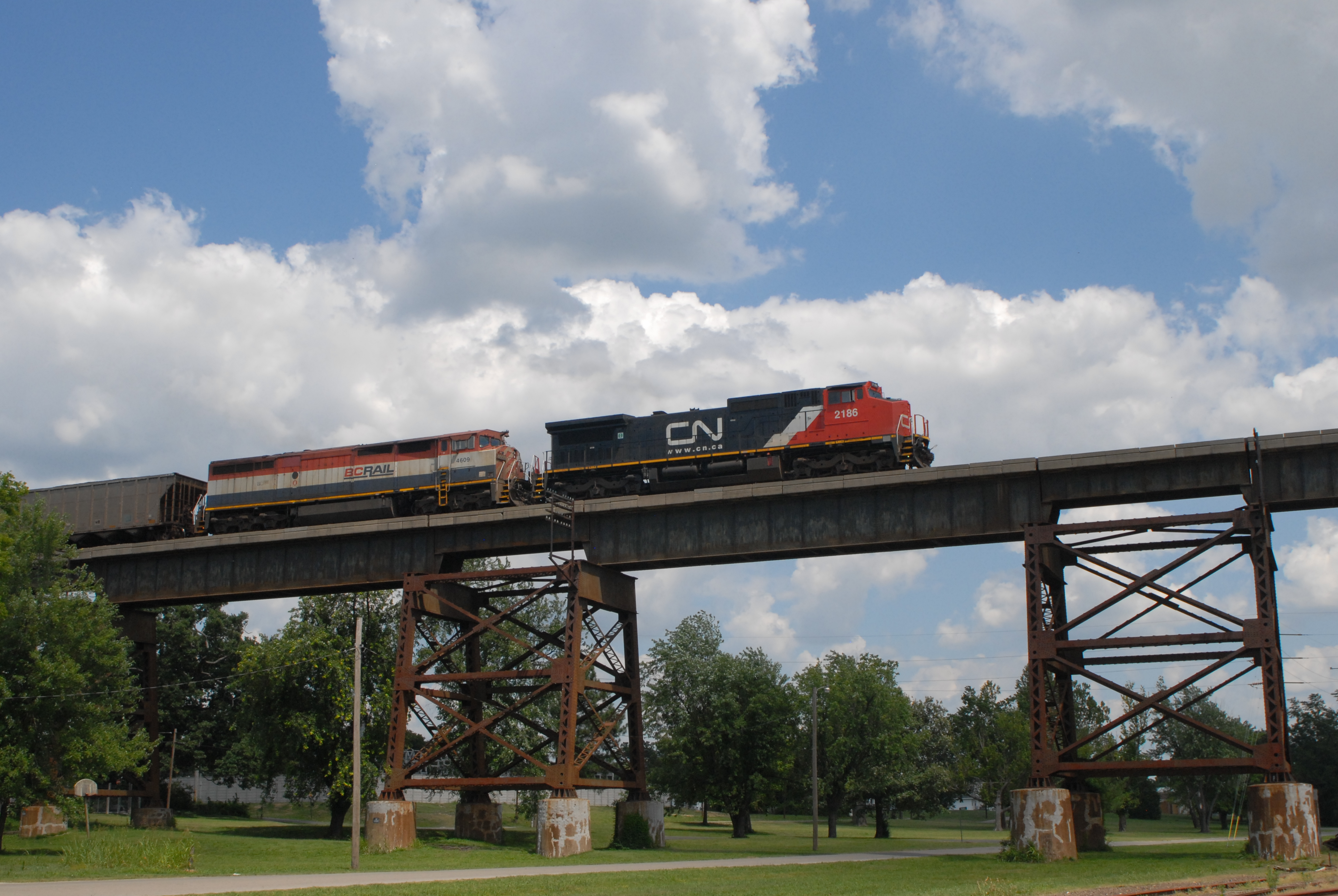 Moving along the overhead bridge approach for the Ohio, River are CN 2186 and a rare site, BCR 4209. Taken 6/19/2012